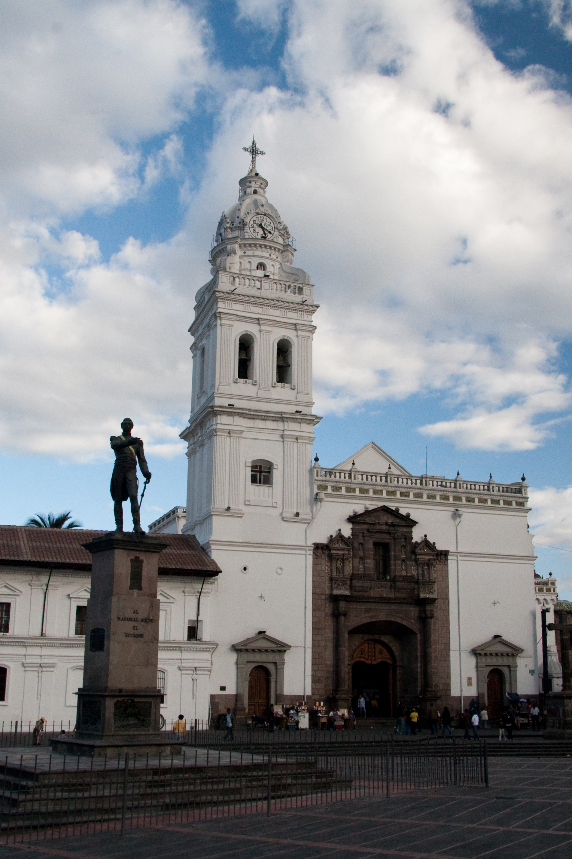 Church and Convent of St. Dominic (Spanish: Iglesia de Santo Domingo) in Quito, Ecuador. 0°13′26.8″S 78°30′45.5″W / 0.224111°S 78.512639°W